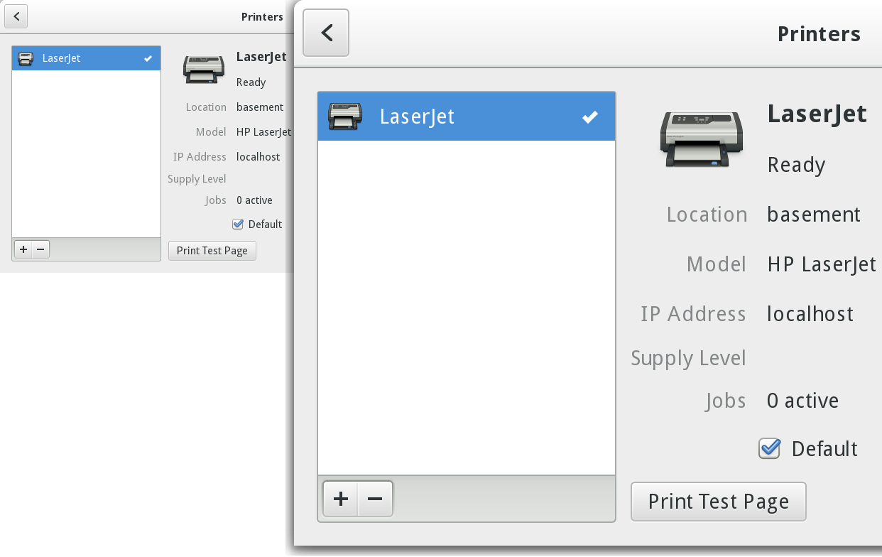 A visual comparison of the normal resolution and high DPI mode of GTK 3.10, using the GNOME Control Center's printer settings panel.